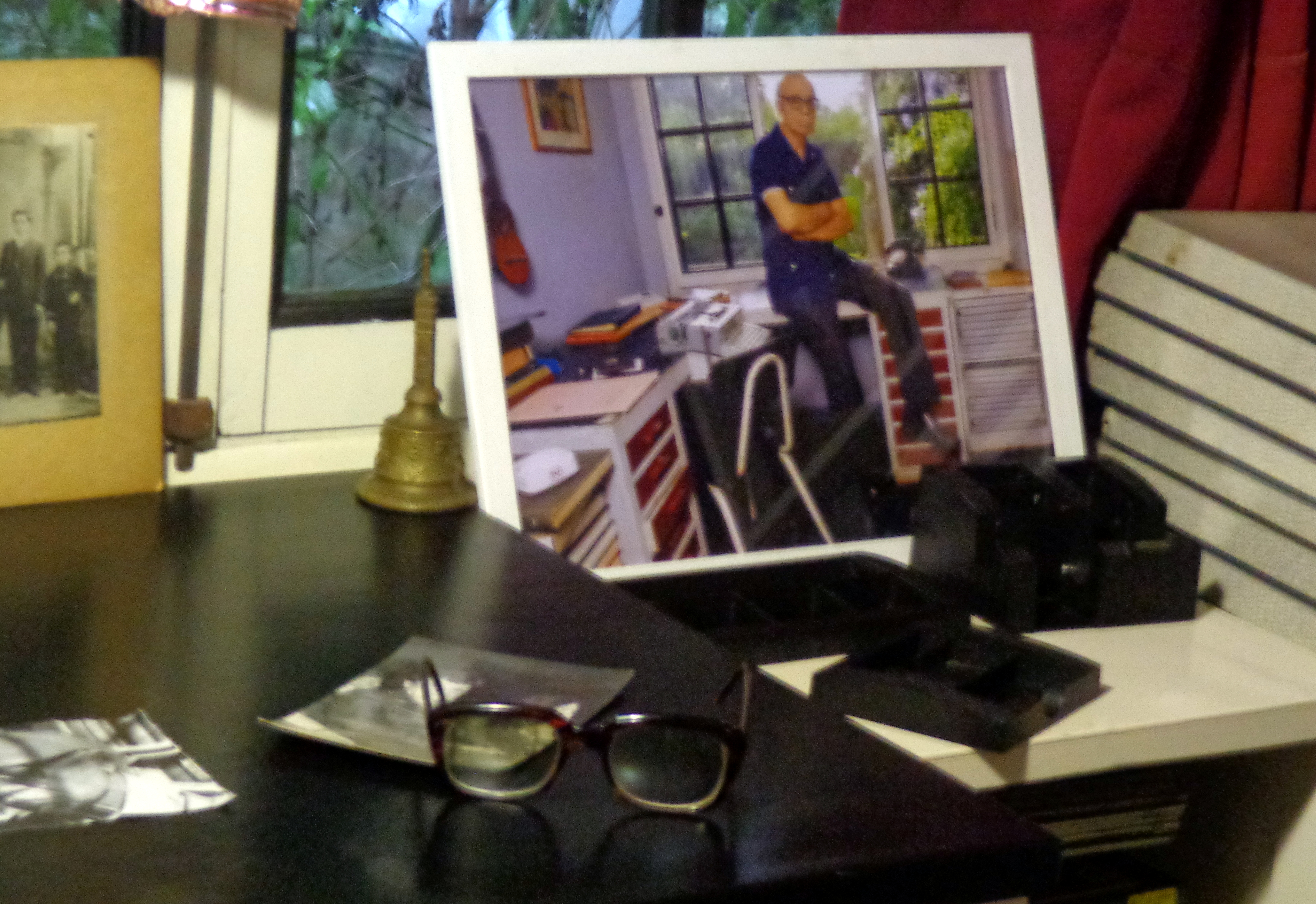 House where the writer Ernesto Sabato lived, current museum. In Saverio Langeri 3135, Santos Lugares, Buenos Aires Province, Argentina.